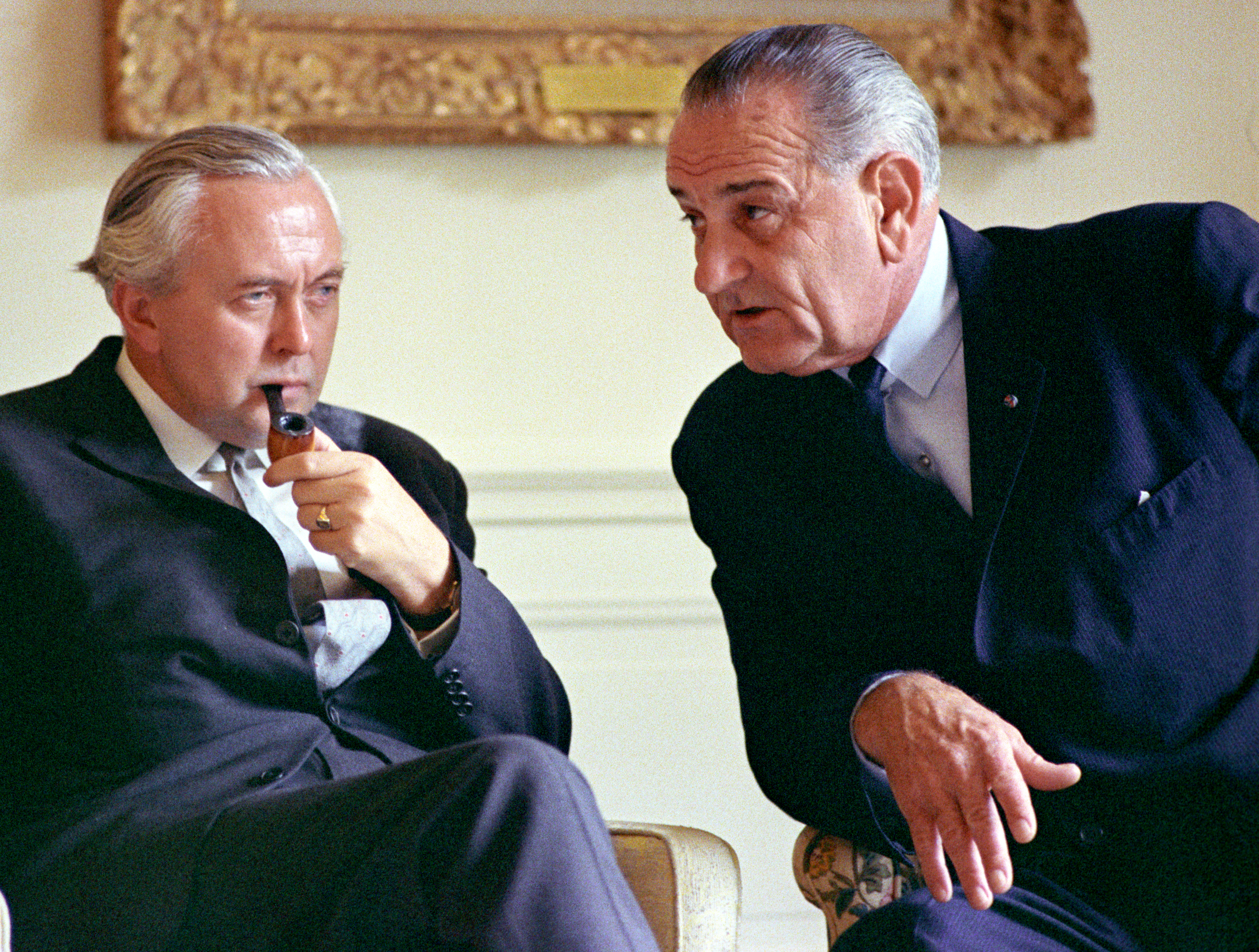 Serial Number (Please Retain for Reference): C2537-5 Date: 07/29/1966 Credit: LBJ Library photo by Yoichi Okamoto Event: Visit of British Prime Minister Harold Wilson Description: President Lyndon B. Johnson meets with Prime Minister Harold Wilson Location: White House interior, Washington, DC Collection: White House Photo Office Rights: Public Domain: This image is in the public domain and may be used free of charge without permissions or fees. Website